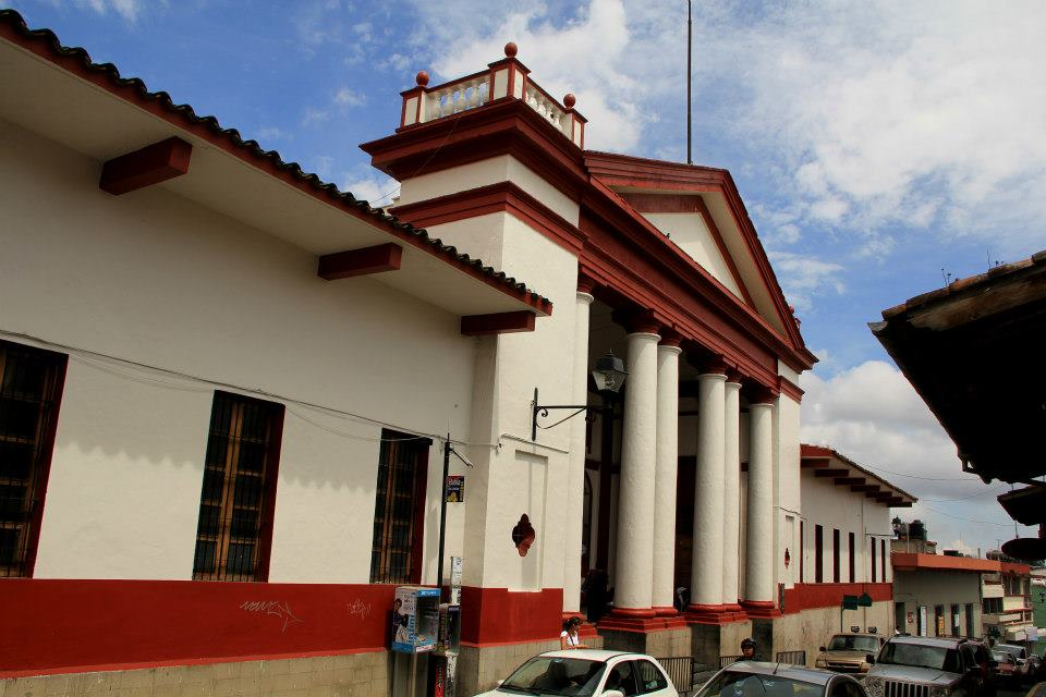 Escuela C. Rebsamen, Xalapa.